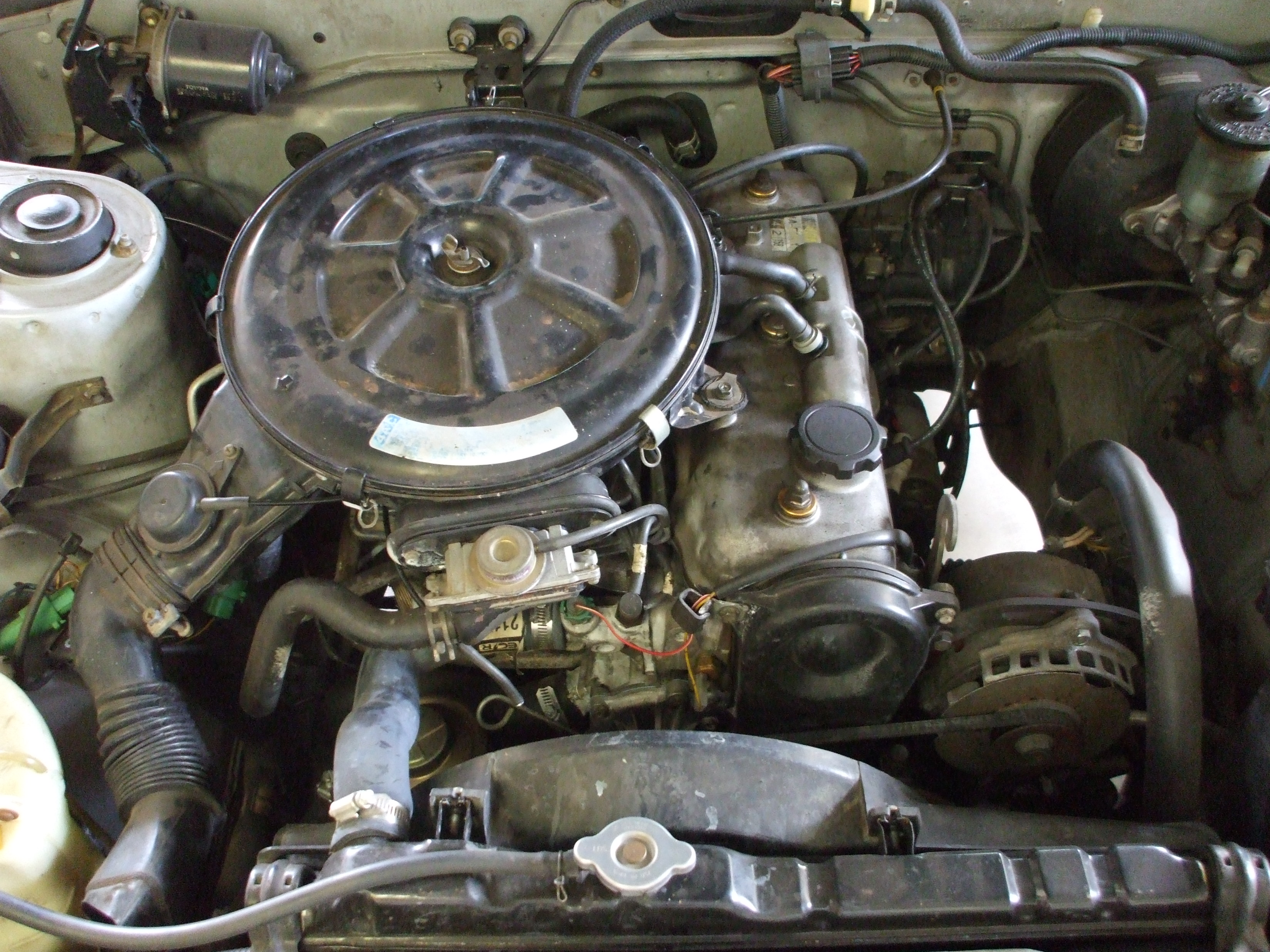 Toyota 4A-C engine in a 1987 Toyota AE85 SR5 Corolla.